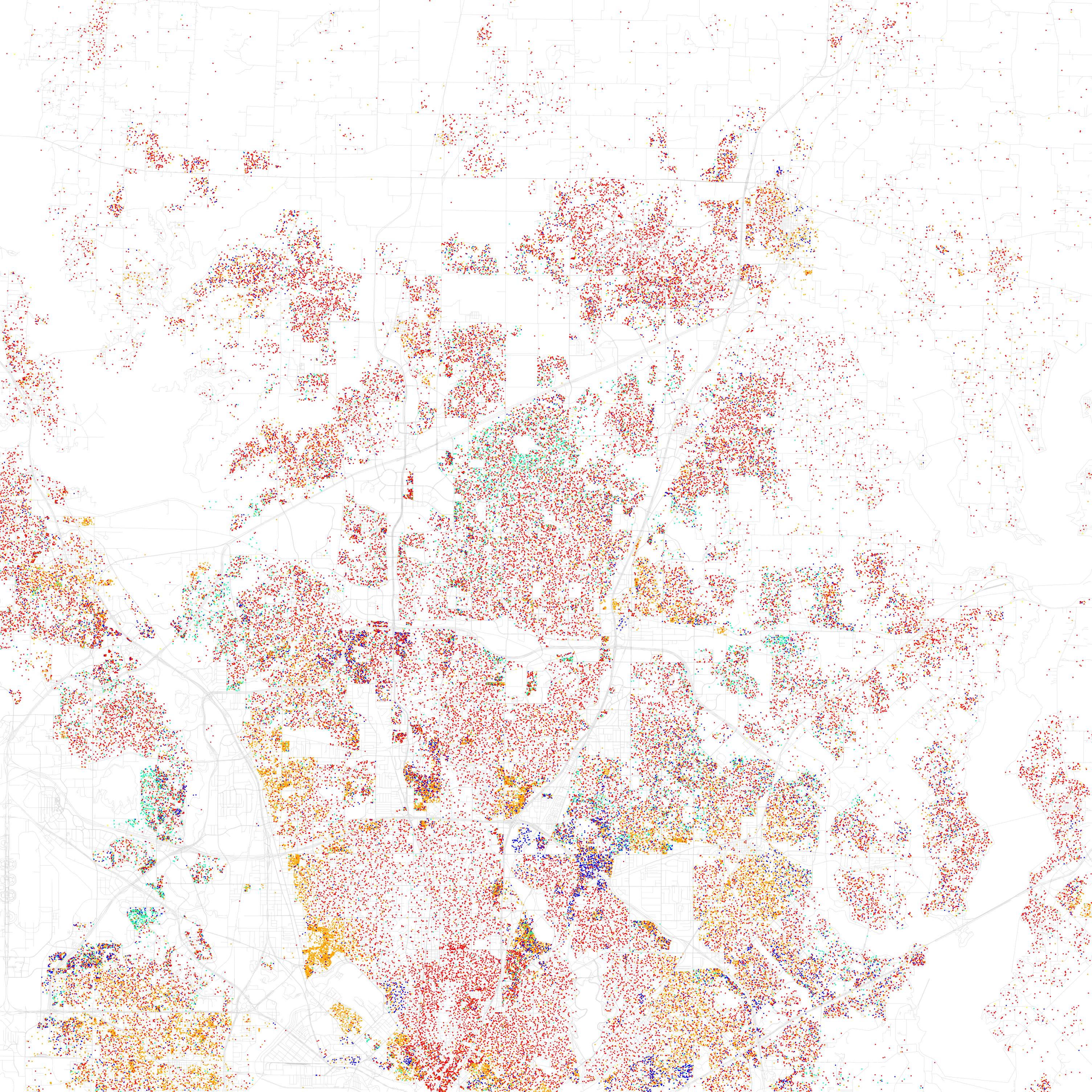 Maps of racial and ethnic divisions in US cities, inspired by Bill Rankin's map of Chicago, updated for Census 2010. Red is White, Blue is Black, Green is Asian, Orange is Hispanic, Yellow is Other, and each dot is 25 residents. Data from Census 2010. Base map © OpenStreetMap, CC-BY-SA